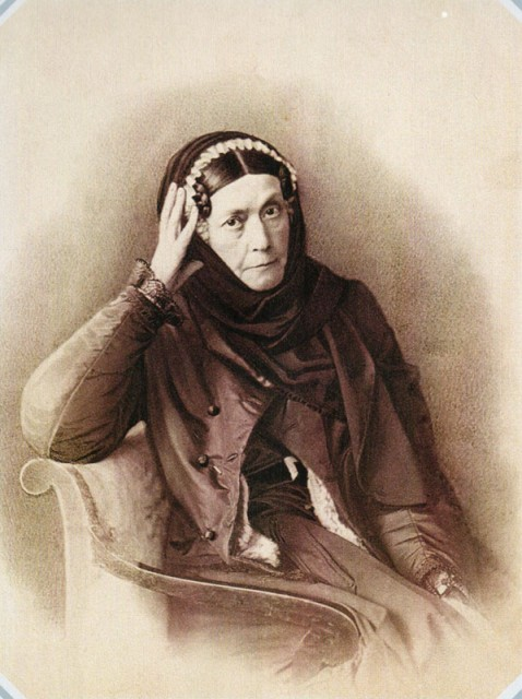 Princess Thekla Zuboff (1801-73)